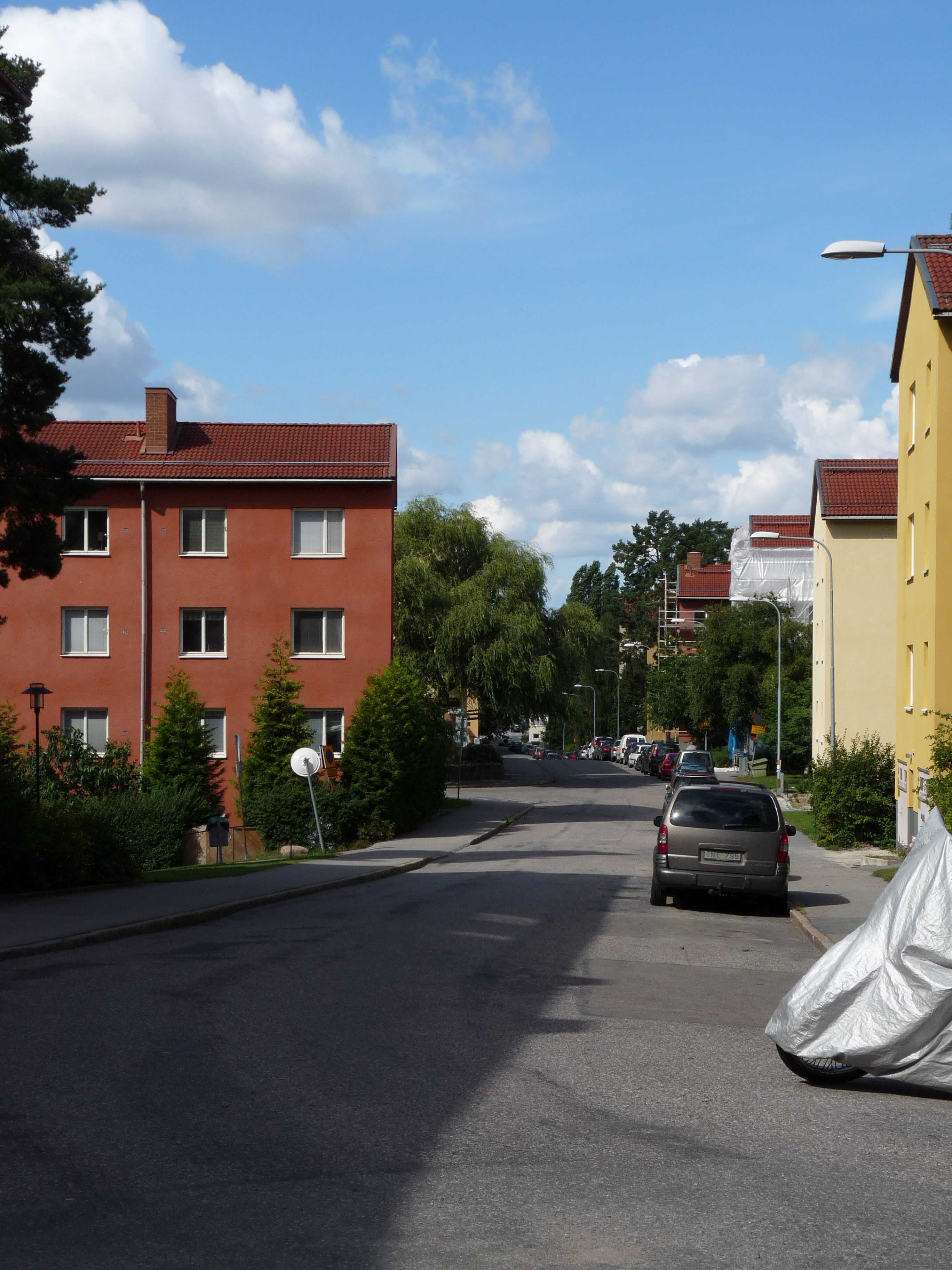 Siljansvägen street in Stockholm